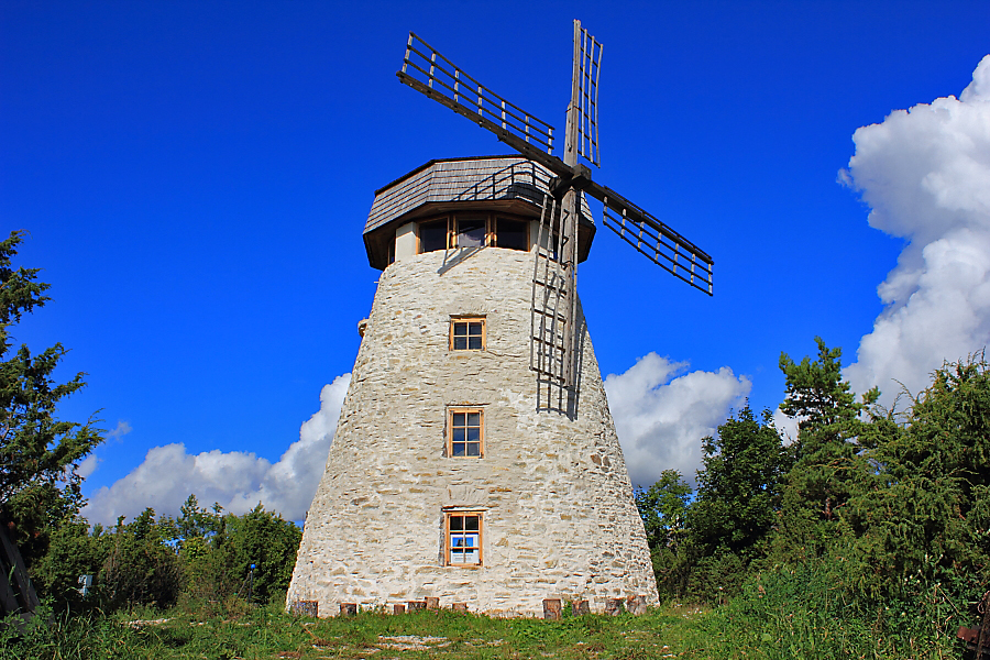 Windmill at Kassari. Hiiumaa island, Estonia.